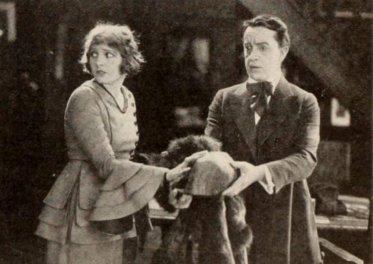 Still from the American comedy drama film Love Watches (1918) with Corinne Griffith and Denton Vane, on page 31 of the August 3, 1918 Exhibitors Herald.